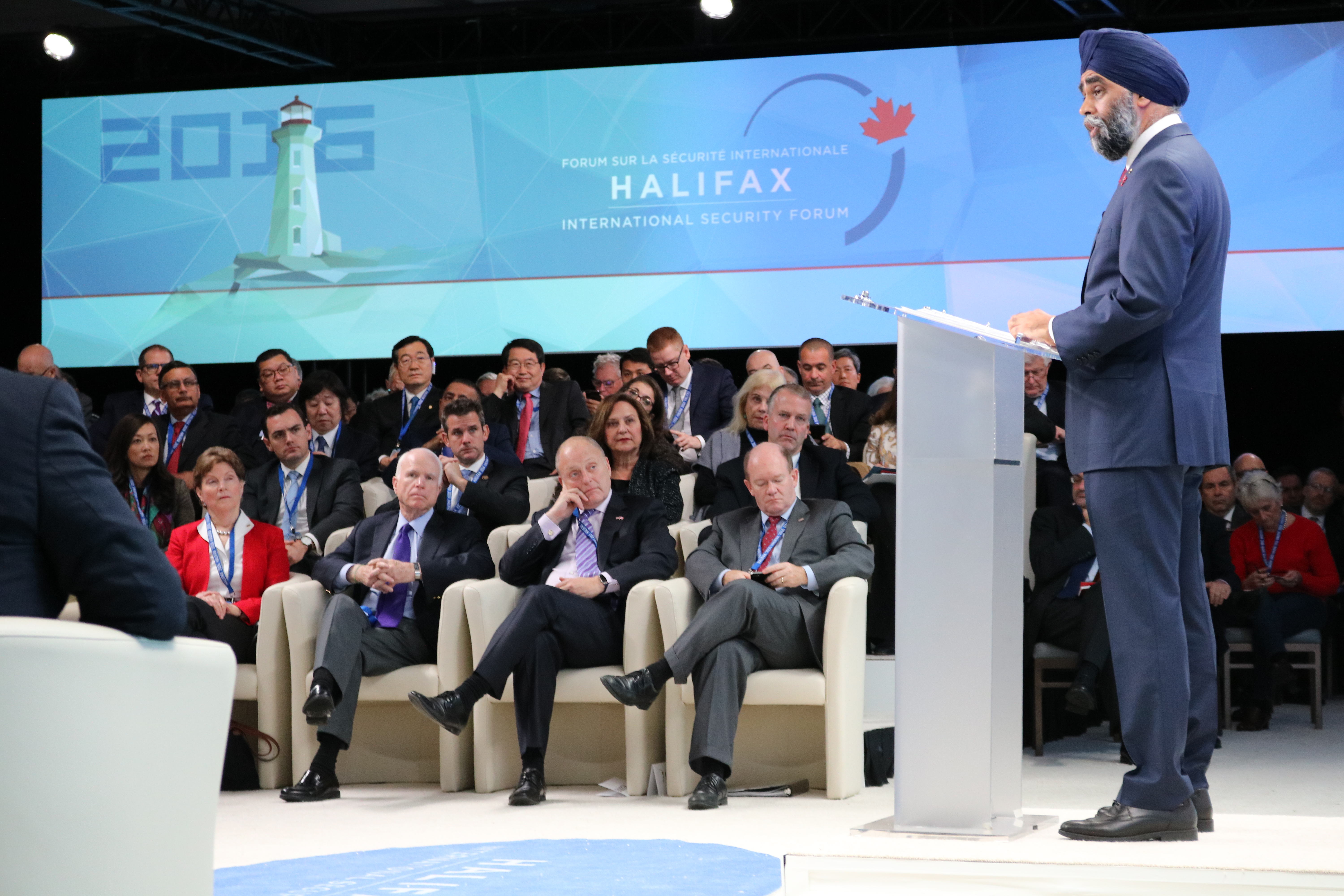 Canadian Minister of Defence Harjit Singh Sajjan addresses the U.S. congressional delegation in Halifax, NS, for the 2016 Halifax International Security Forum.